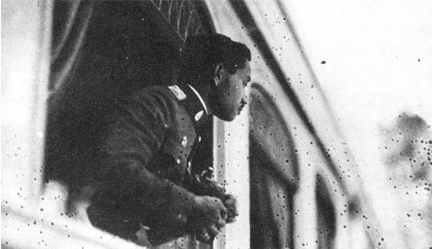 Photograph of Rama VII looking outside a Train